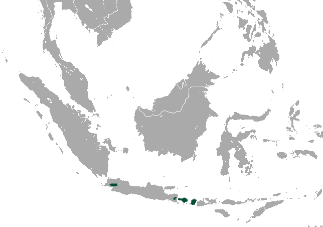 Javan Tailless Fruit Bat (Megaerops kusnotoi) range